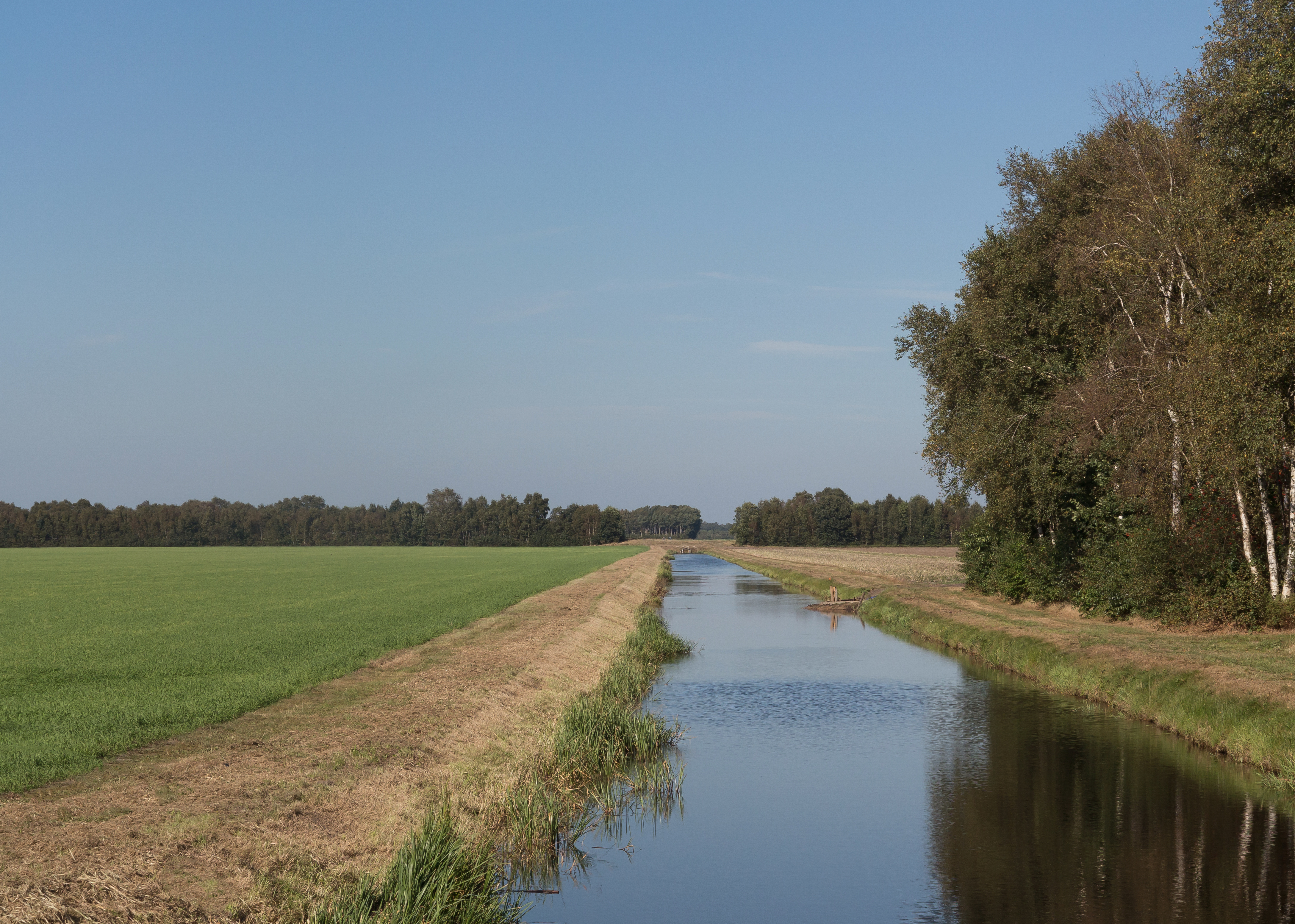 Weiteveen, ditch in bog wetland